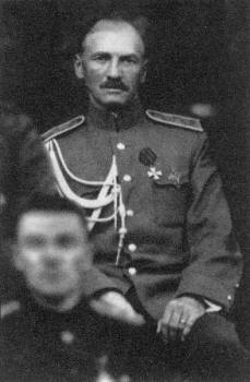 Berezovsky, Aleksandr Ivanovich